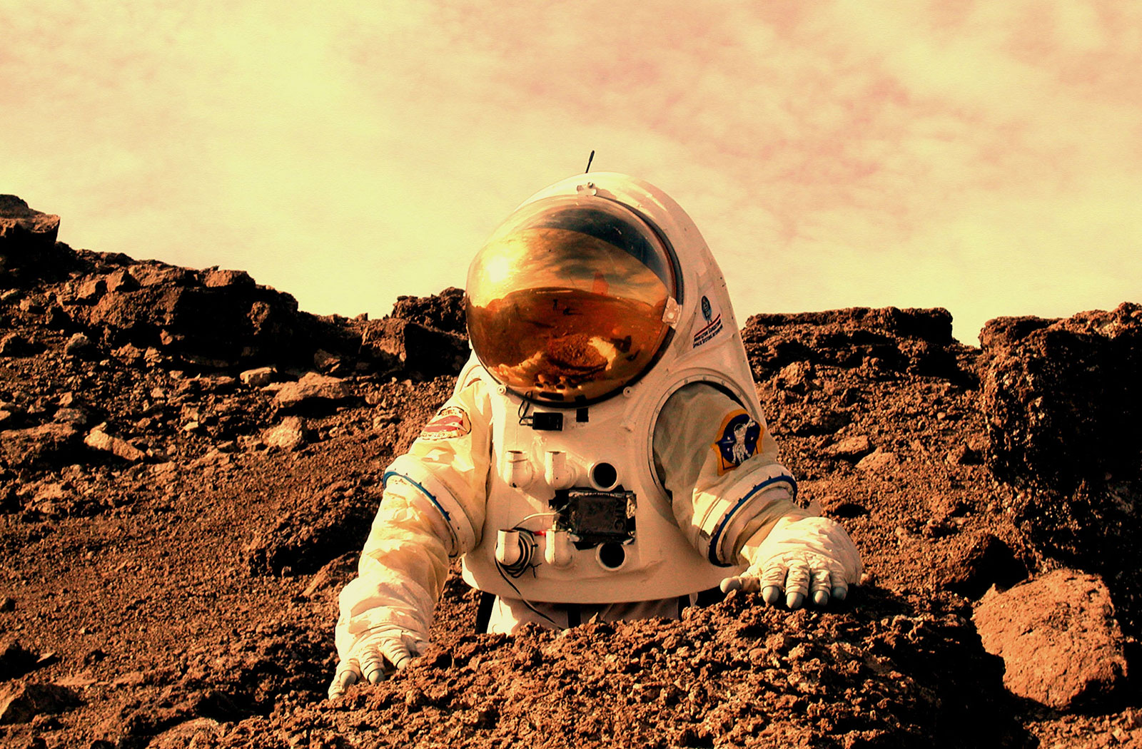 Artist's concept of astronaut working on Mars NASA wants to send humans to Mars 15 to 20 years from now. Future Mars explorers could uncover evidence that life has existed – or even might exist now – on Mars, answering one of the most basic questions humans have of the universe. A fleet of robotic spacecraft and rovers already are on and around Mars, dramatically increasing our knowledge about the Mars and paving the way for future human explorers.